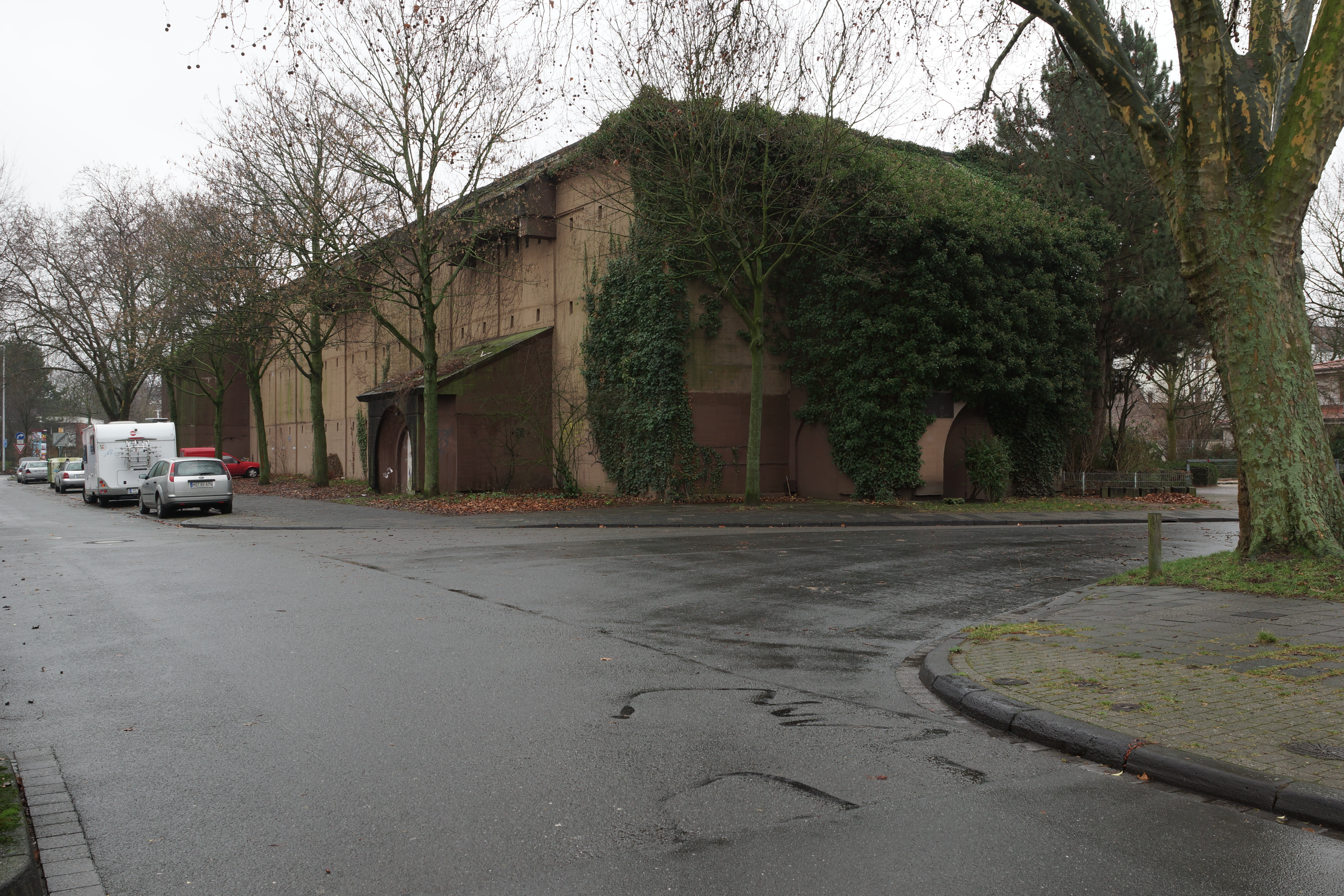 Air raid shelter (Schützenhof shelter, build for WW2) in the Geist, Münster, Germany.